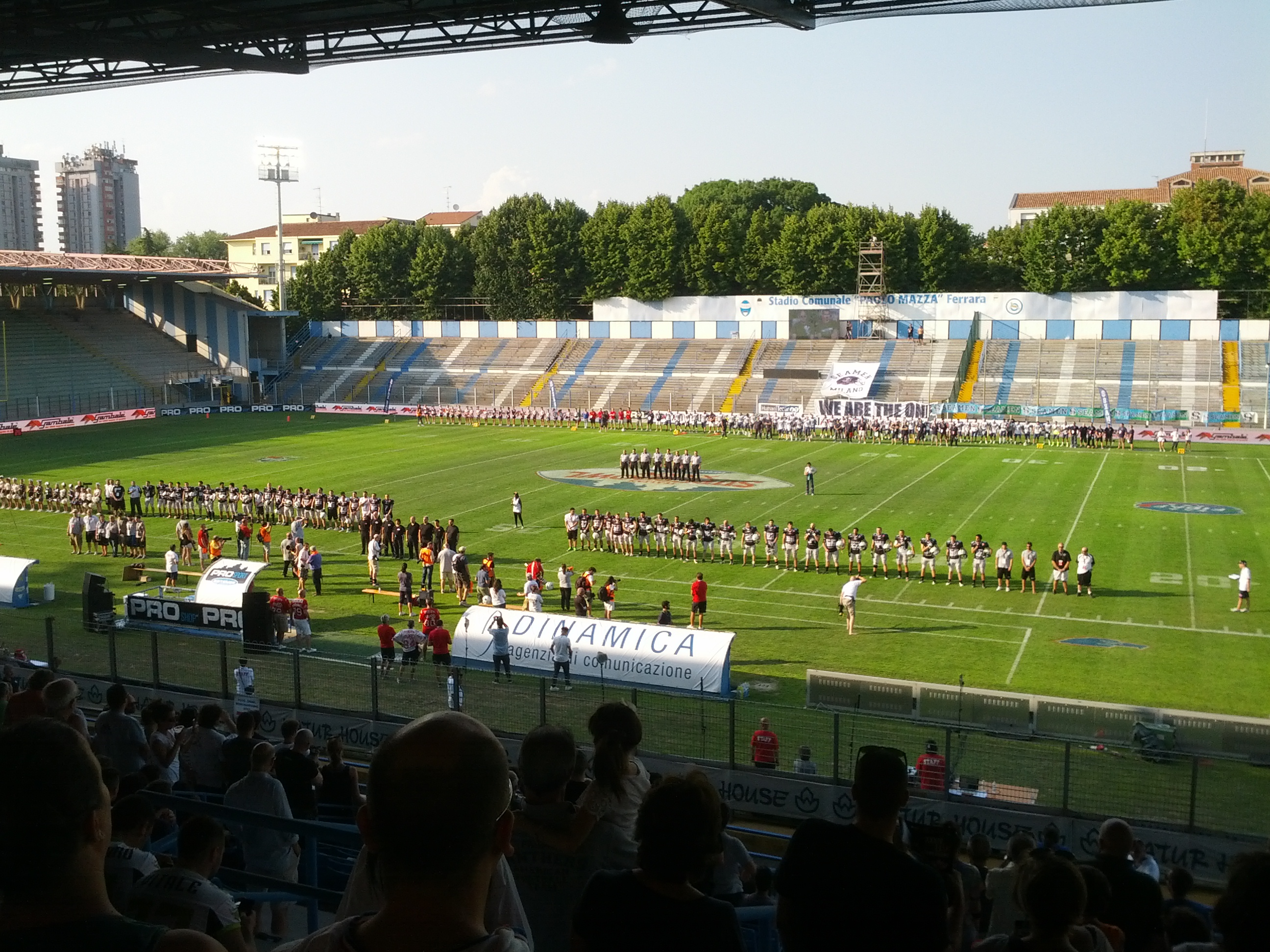 XXXIV Italian Superbowl, The Italian Football League Finale heald in Ferrara 2014-07-06